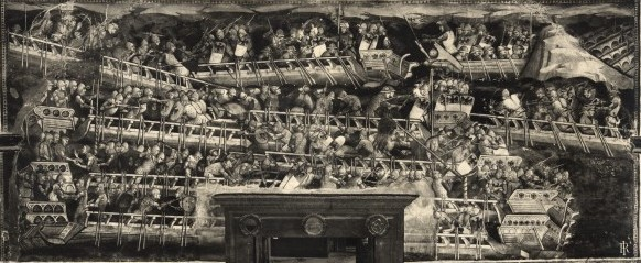 Fresco at Siena: Battle of Punta San Salvatore